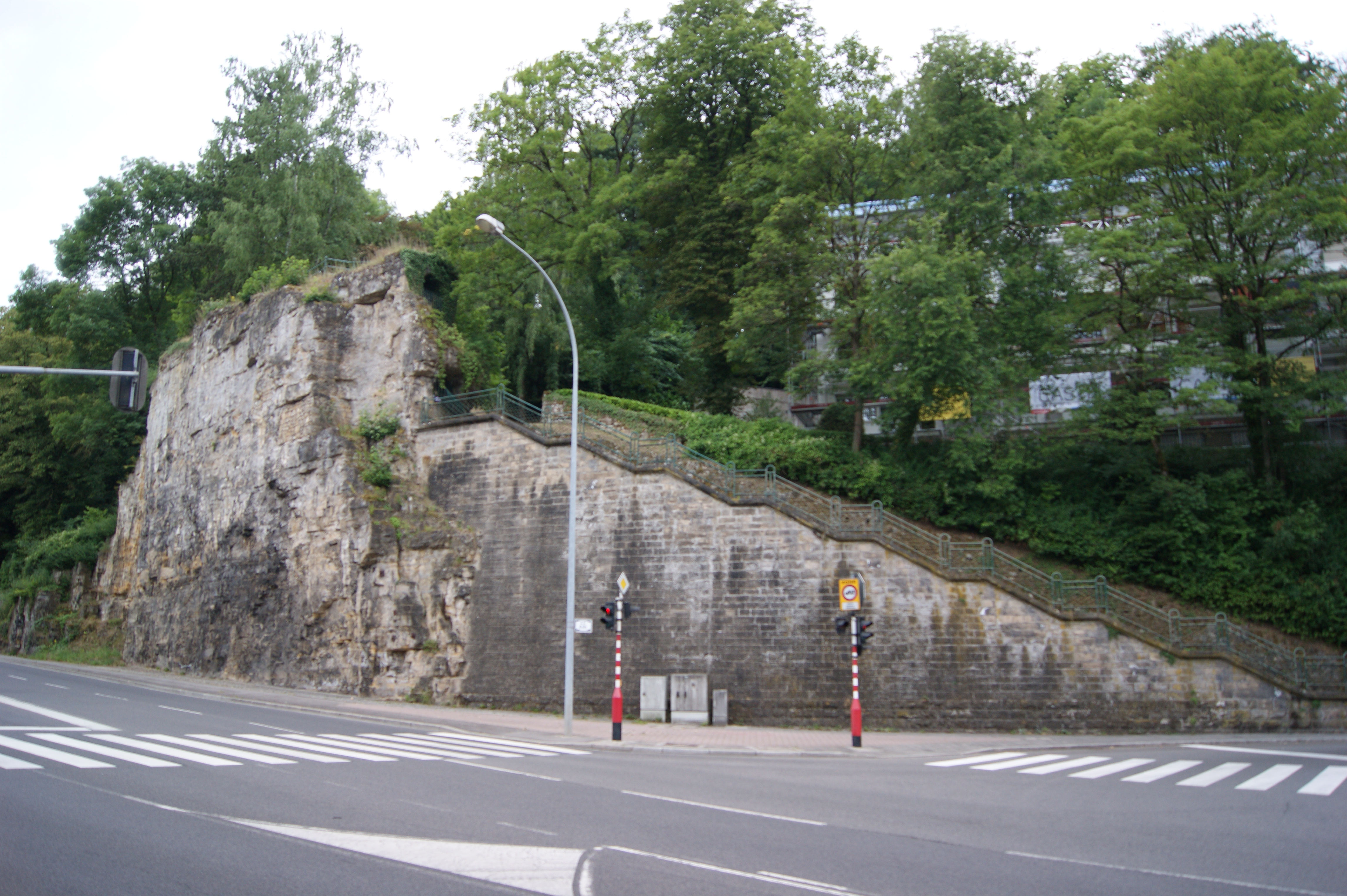 Péiter Onrou - Rue Côte d Eich - Eecher Bierg in the City of Luxembourg in the Grand Duchy of Luxembourg. Right the turnoff to Rue des Glacis.